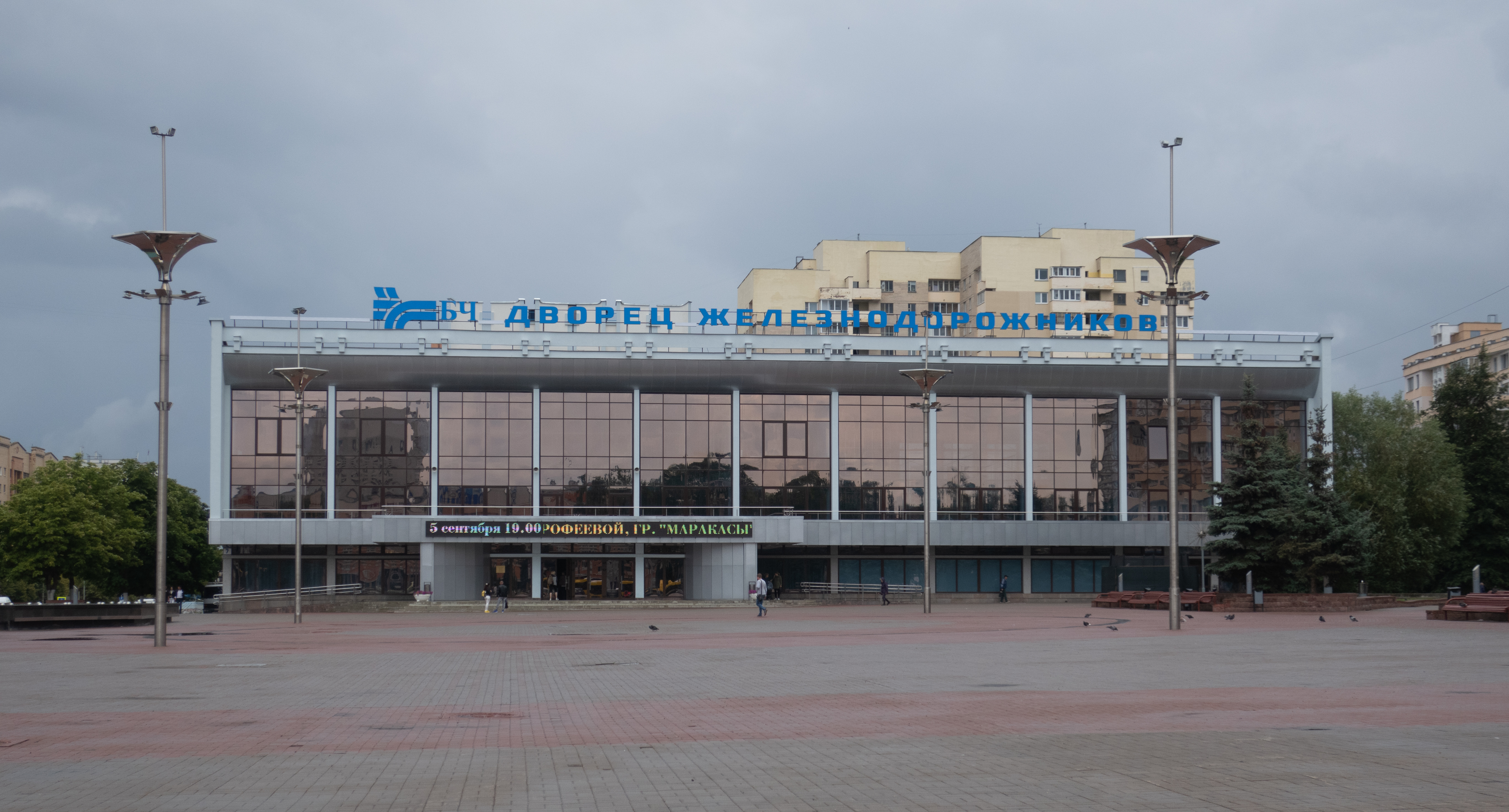 Palace of culture of the railway workers. Minsk, Belarus